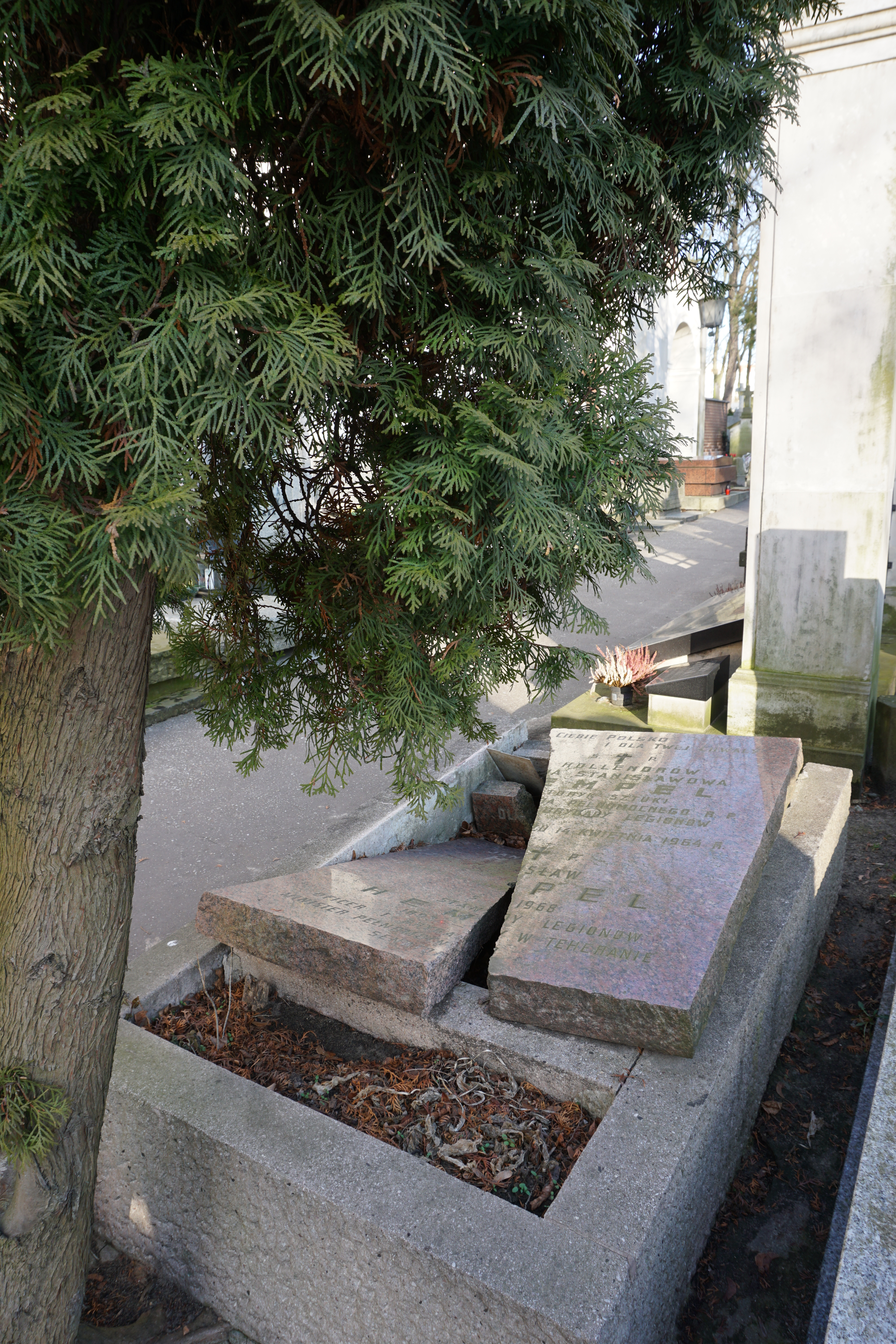 The grave of Stanisław Hempel at the Powązki Cemetery (section 164, row 6, grave 1)